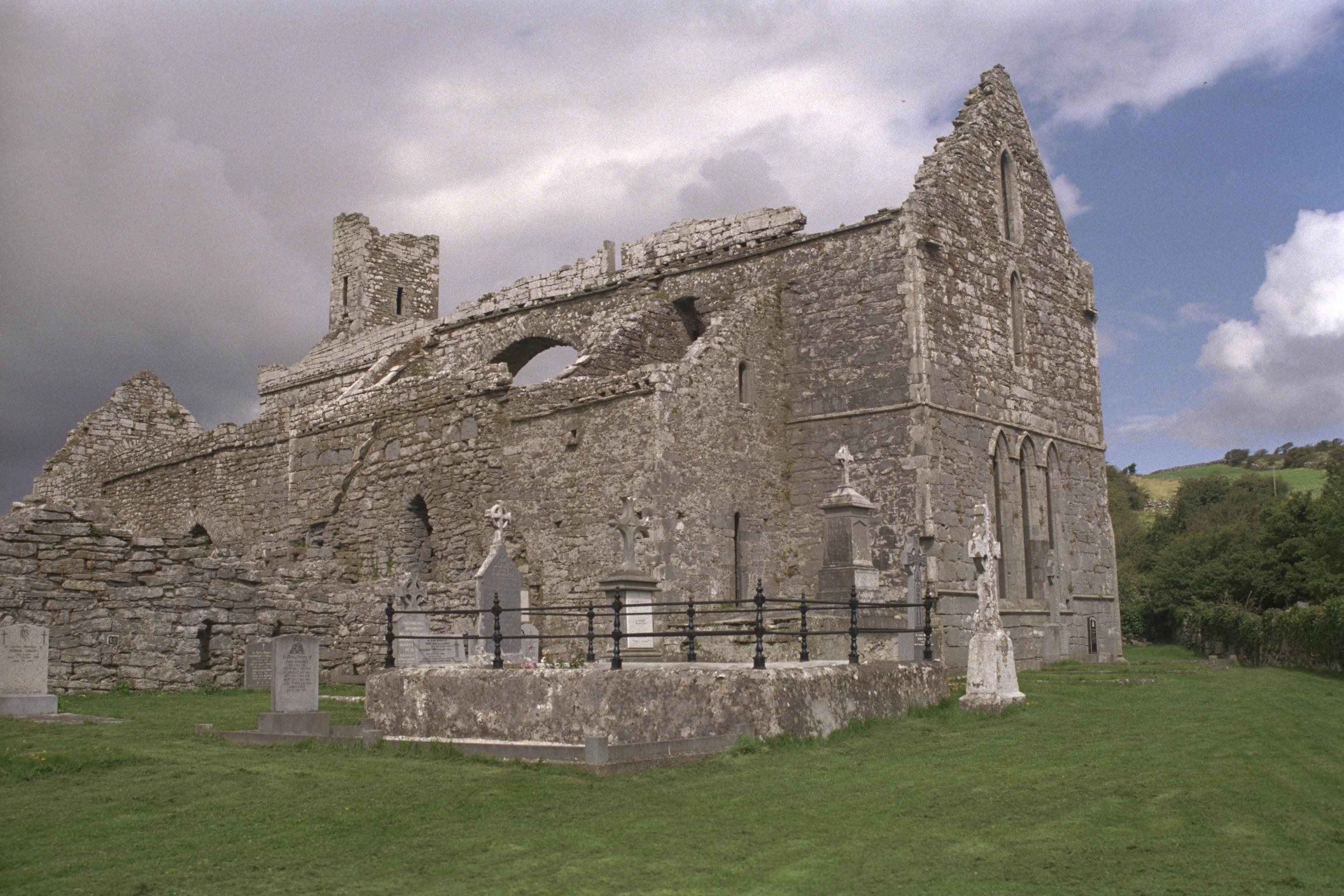 Corcomroe Abbey, County Clare, Ireland South East view